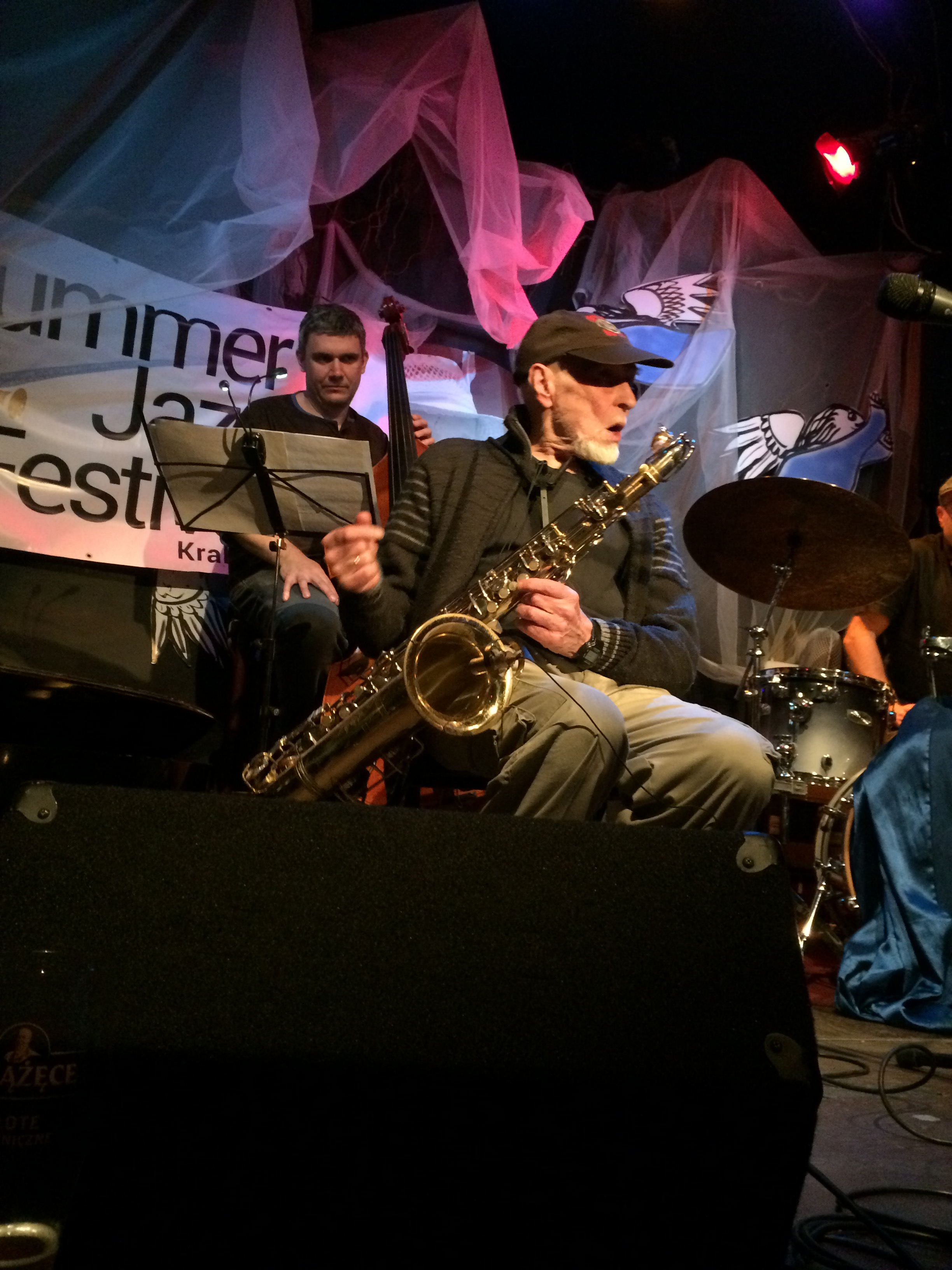 Jan "Ptaszyn" Wróblewski, Polish jazz musician, performing with his quartet at Piwnica pod Baranami in Kraków, Poland during the Summer Jazz Festival.